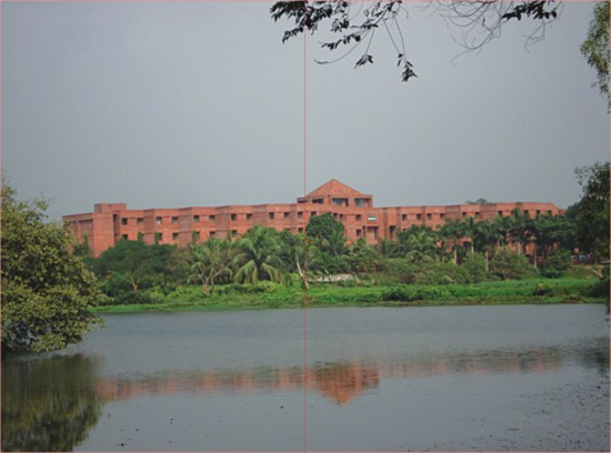 Jahangirnagar Universy hostel at savar